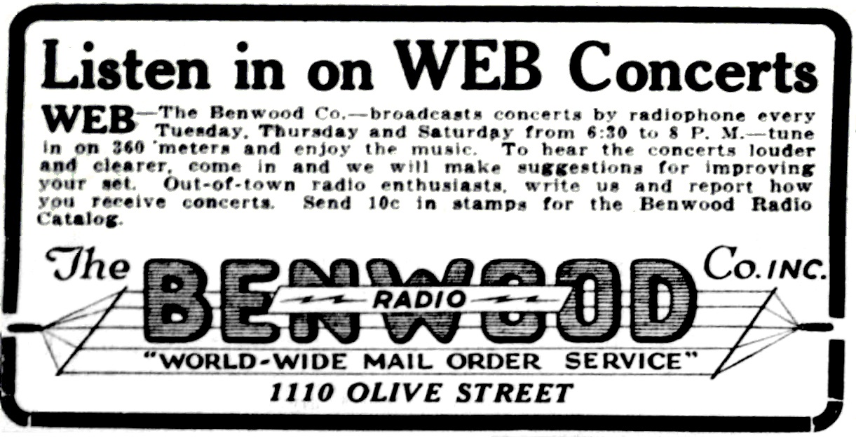 Newspaper advertisement for The Benwood Company, which appeared on page 10 of the May 4, 1922 issue of the St. Louis Star. Promotes the company's radio station, WEB.